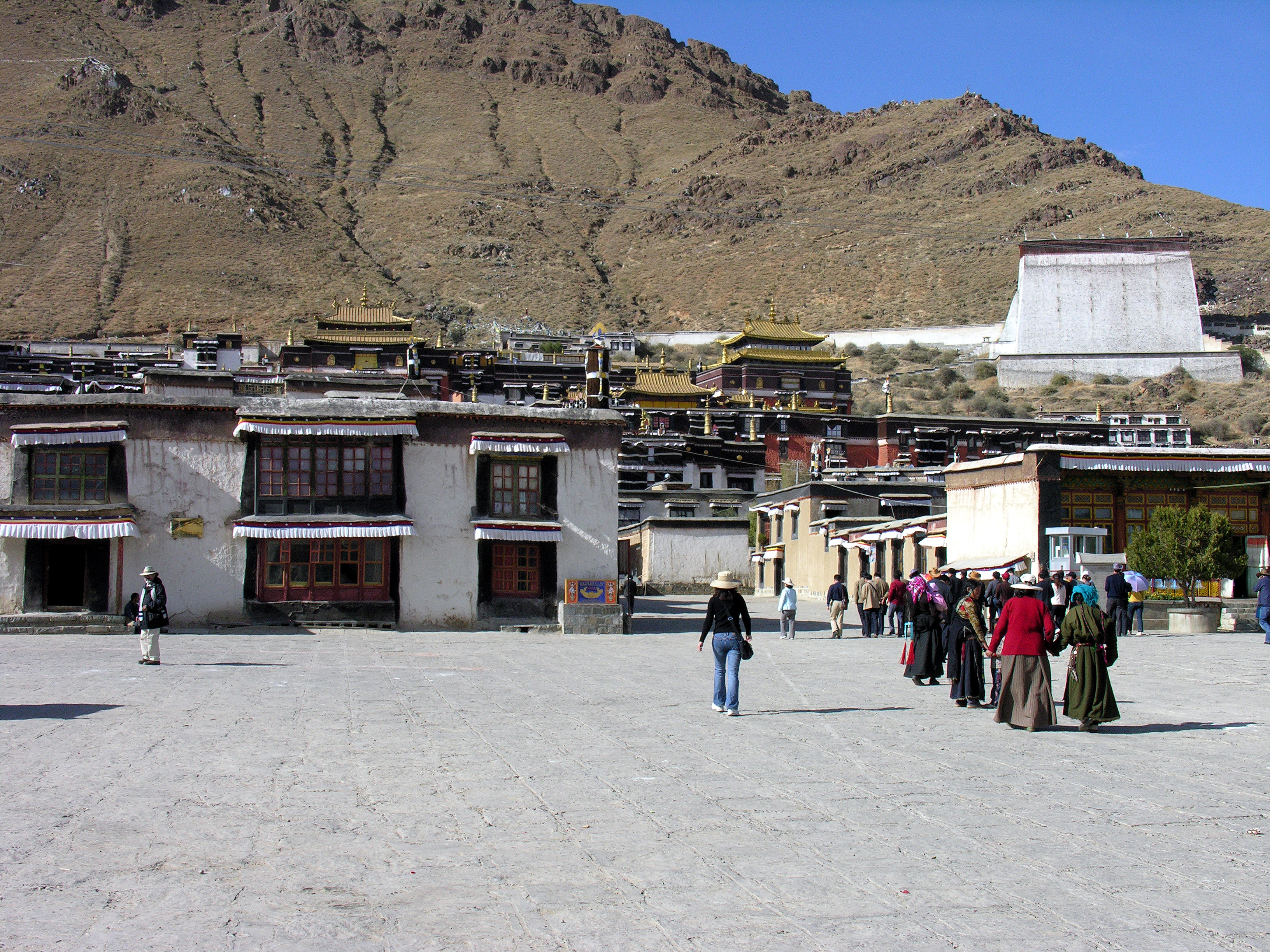 The large white wall on right is the Thangka Wall which is nine floors high was built by the First Dalai Lama in 1468. The wall displays the images of Buddha on the 14th, 15th and 16th of May every year following the Tibetan Lunar Calendar. The images are so large that one can easily see it in Shigatse City. Tashilhunpo Monastery, Shigatse, Tibet